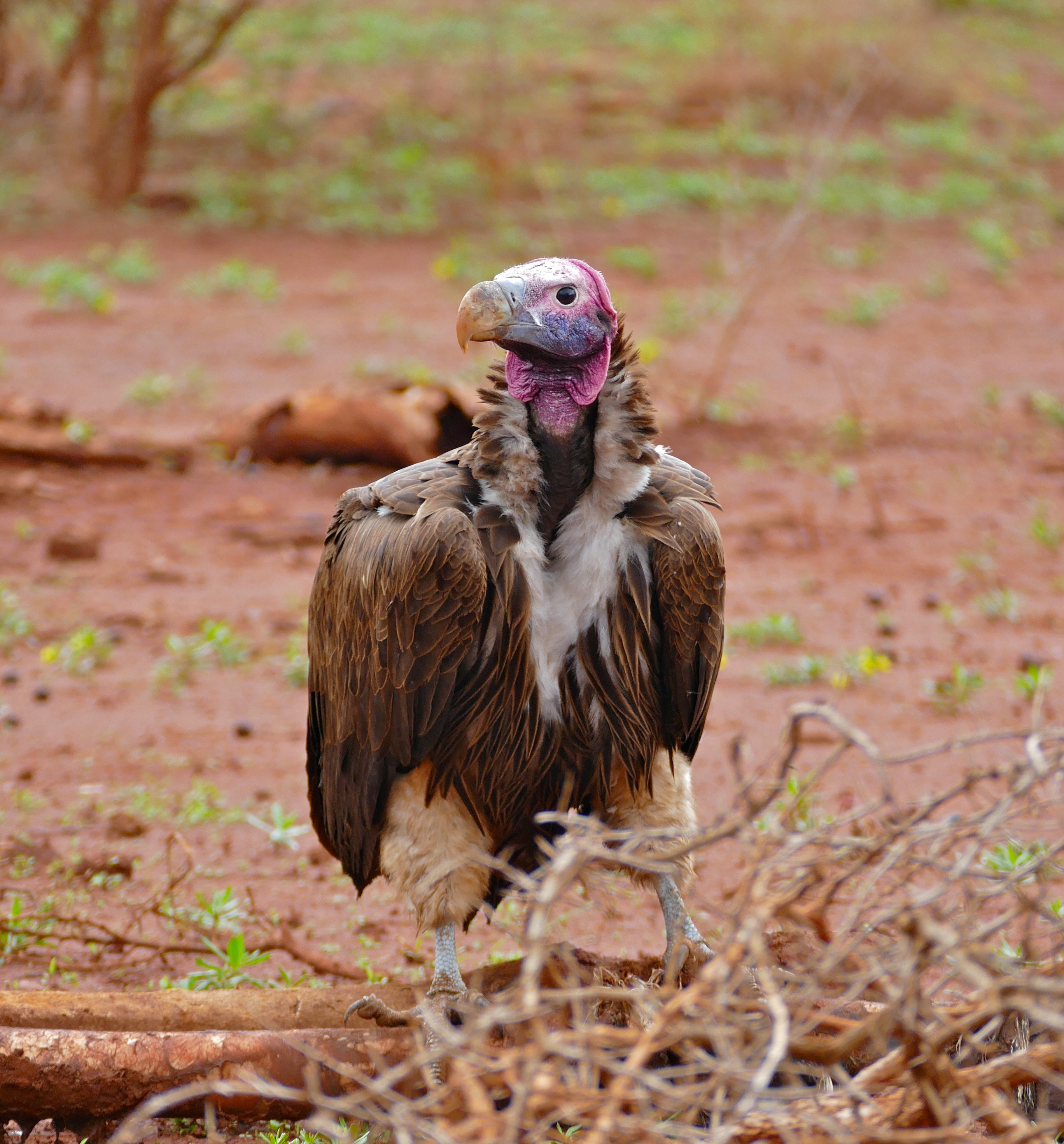 S128 Road North of Lower Sabie, Kruger NP, Mpumalanga, SOUTH AFRICA